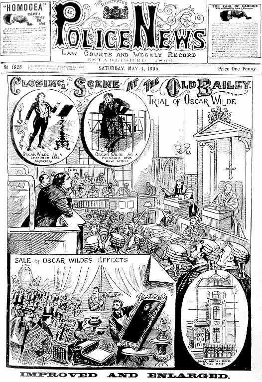 The Wilde Trial as recorded in The Illustrated Police News, May 4 1895.